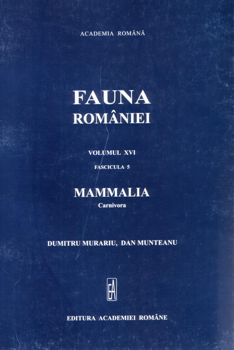 Fauna României (book)